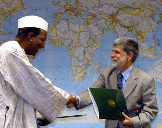 Alpha Konaré, President of the Commission of the African Union, with Celso Amorim, foreign minister of Brasil.